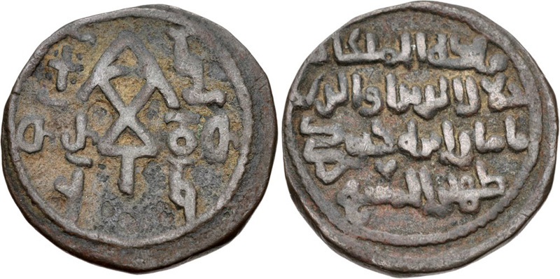 GEORGIA, Kingdom. T’amar. Queen Regnant, 1184-1213. Æ Fals (26mm, 6.65 g, 3h). Dated Year 420 of the Paschal cycle (AD 1200). Lage symbol representing military standard or upright crossbow; acronym of “T’amar Davit’” to left and right’ Pascal cycle date around / Name and titles of T’amar in Arabic in four lines. Pakhamov pl. VIII, 132-5; Kapanadze 64; Lang 11. VF, brown patina. The Arabic inscription reads malka al-mulkat, jalal al-dunya wa al-din, Tamar ibint Giorgi, zahir al-massih ("Queen of Queens, glory of the world and of the faith, Tamar daughter of Giorgi, champion of the messiah"). See also [1]